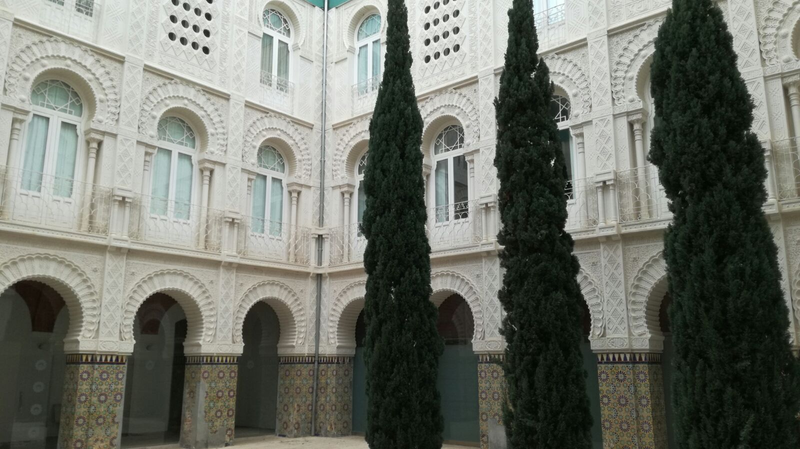 Patio interior Casa Dorda